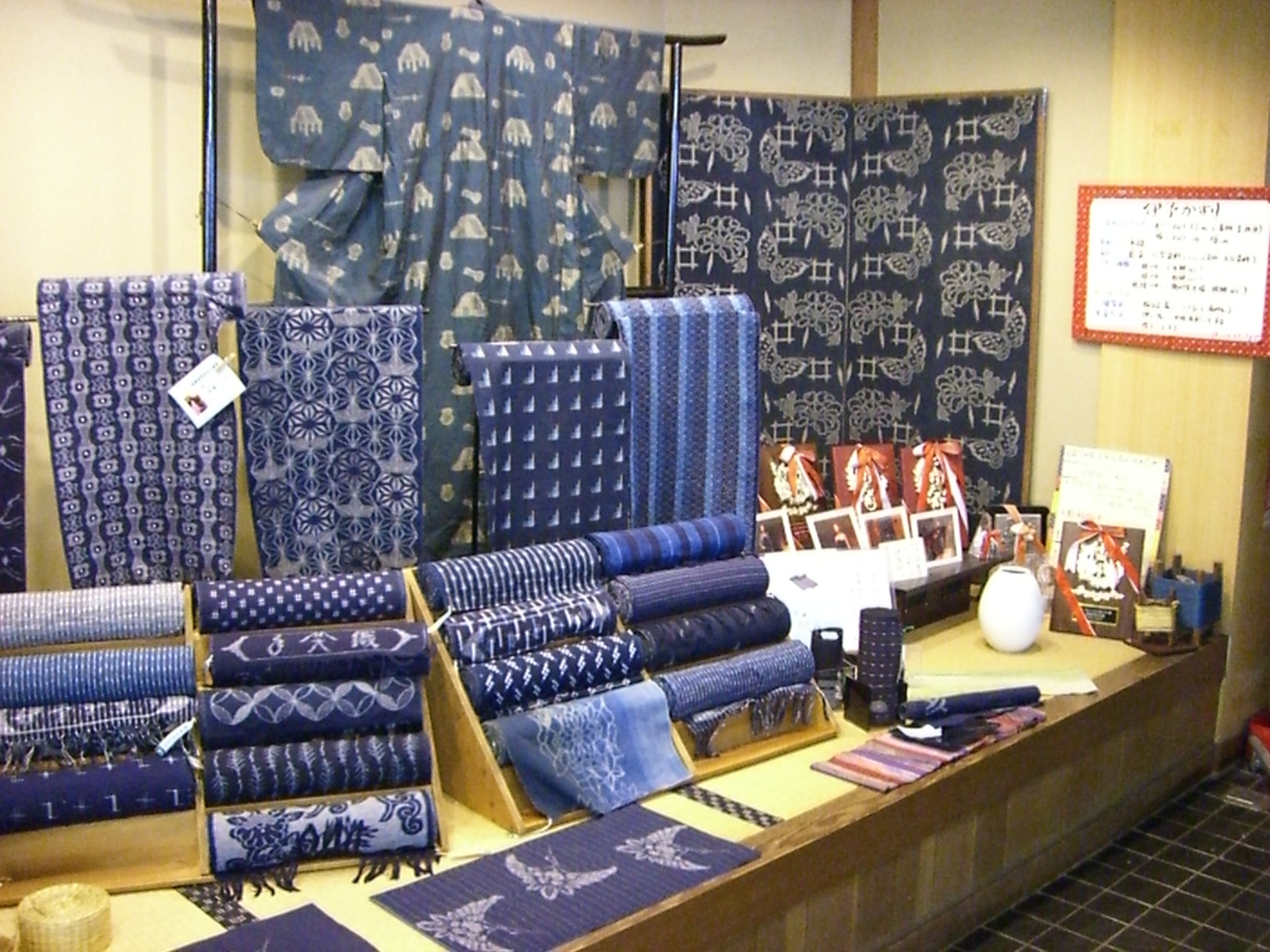 “Iyo-Kasuri” Iyo-kasuri, along with Kurume and Bingo-kasuri, is one of the three main kasuri in Japan. It has long been loved because of its simple style, the strength of its cotton, and its beautiful indigo color and elaborate patterns.